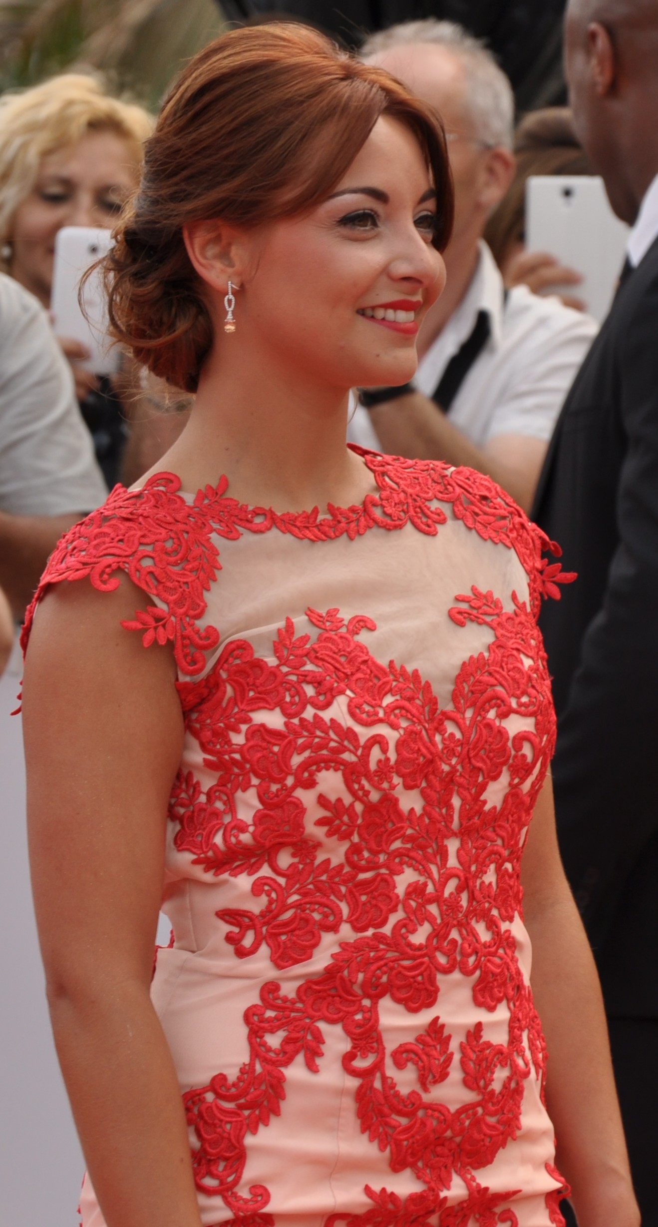 Priscilla Betti at the 2015 Monte-Carlo Television Festival.